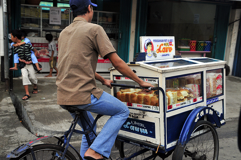 Bread hawker